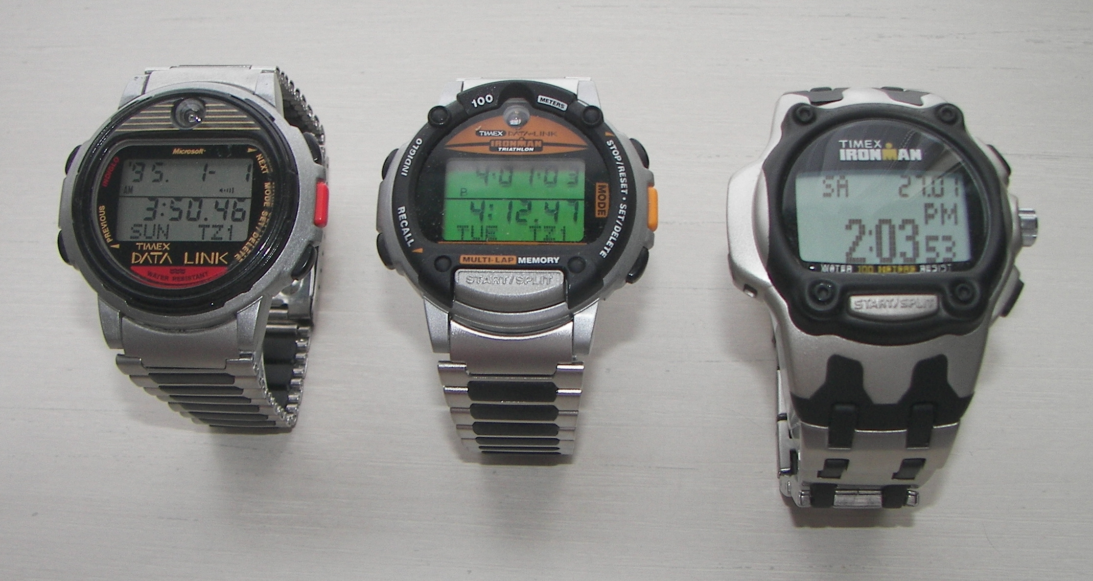 I am the creator. Dr.K. 18:24, 27 January 2007 (UTC)